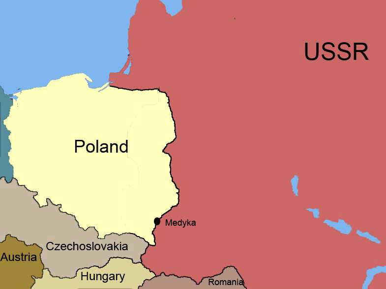 Poland 1948